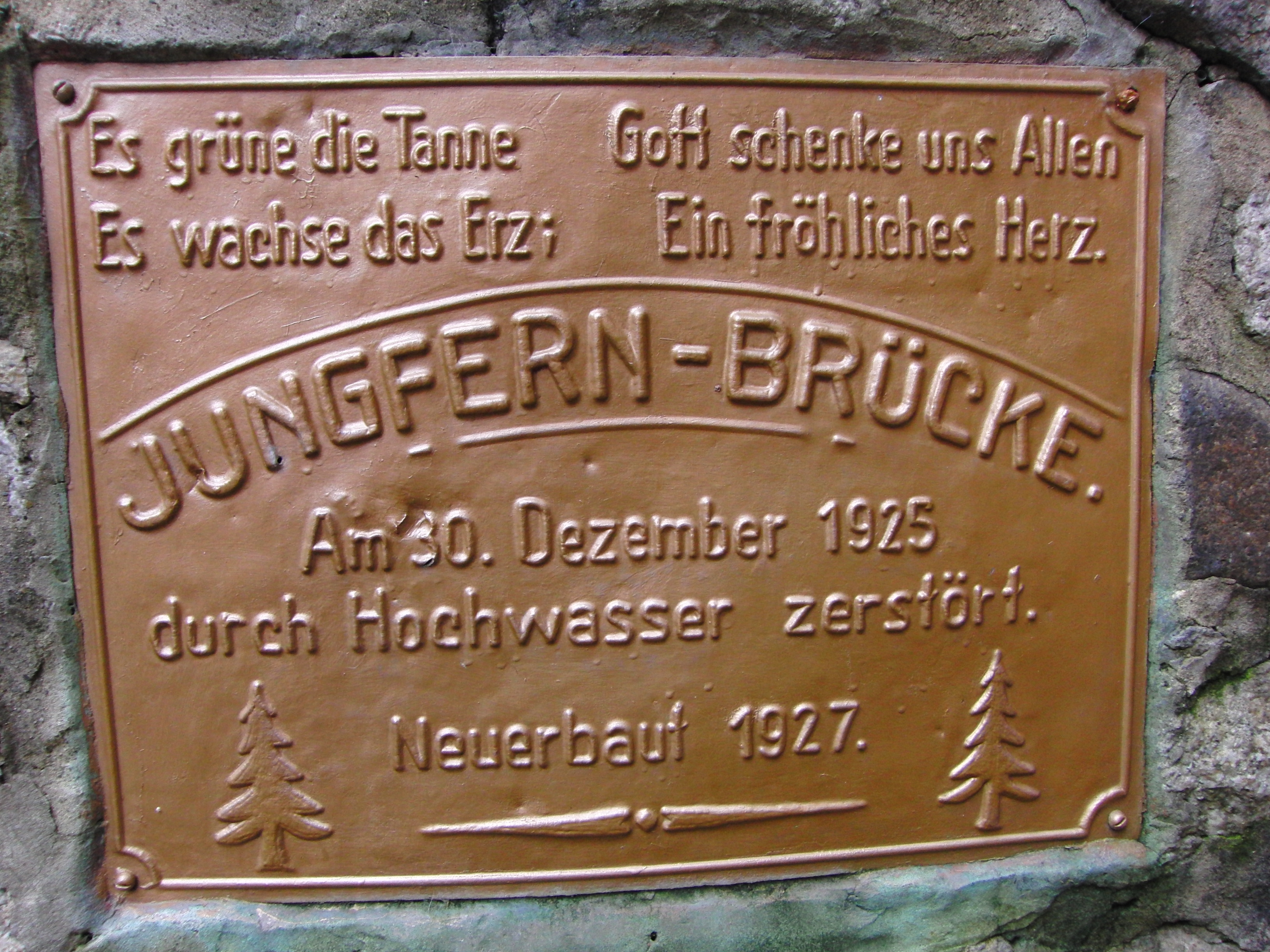 Board on the Jungfern-Brücke (bridge) in Bodetal, Harz